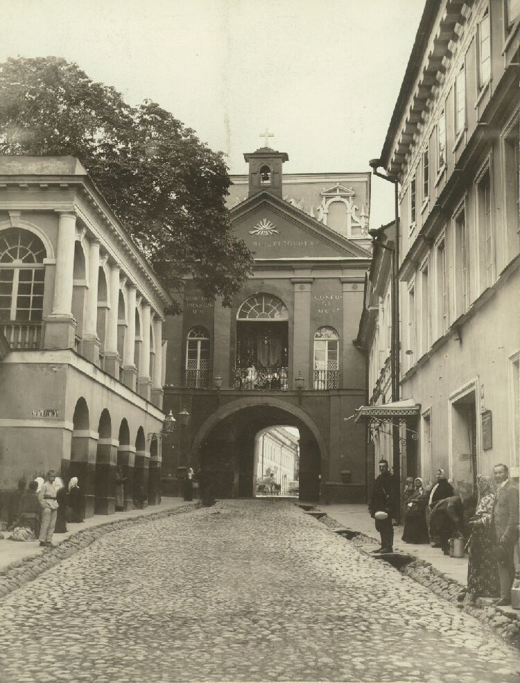 Lithuanian capital city Vilnius. Gate of Dawn